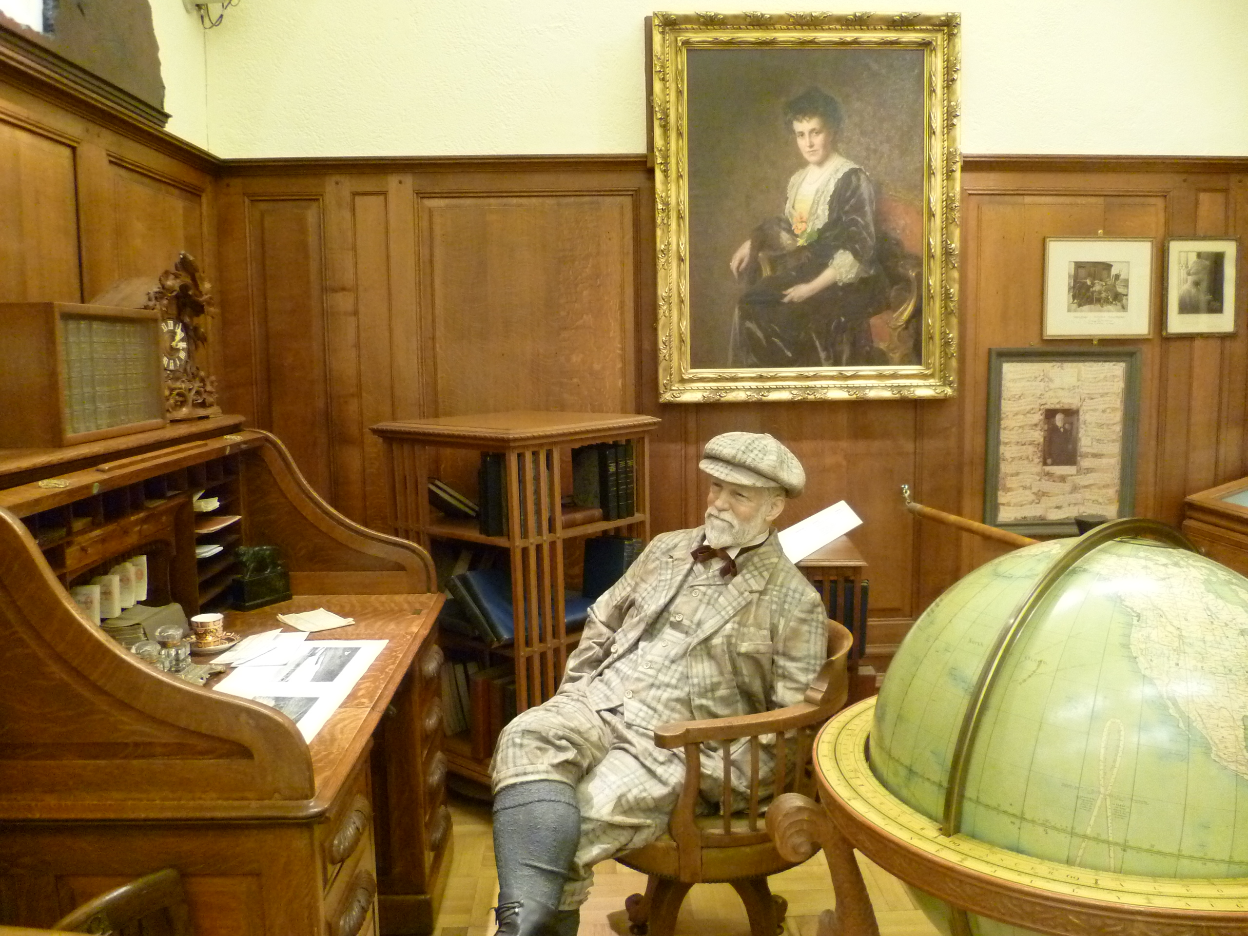 A display at the Andrew Carnegie Birthplace Museum in Dunfermline, Fife